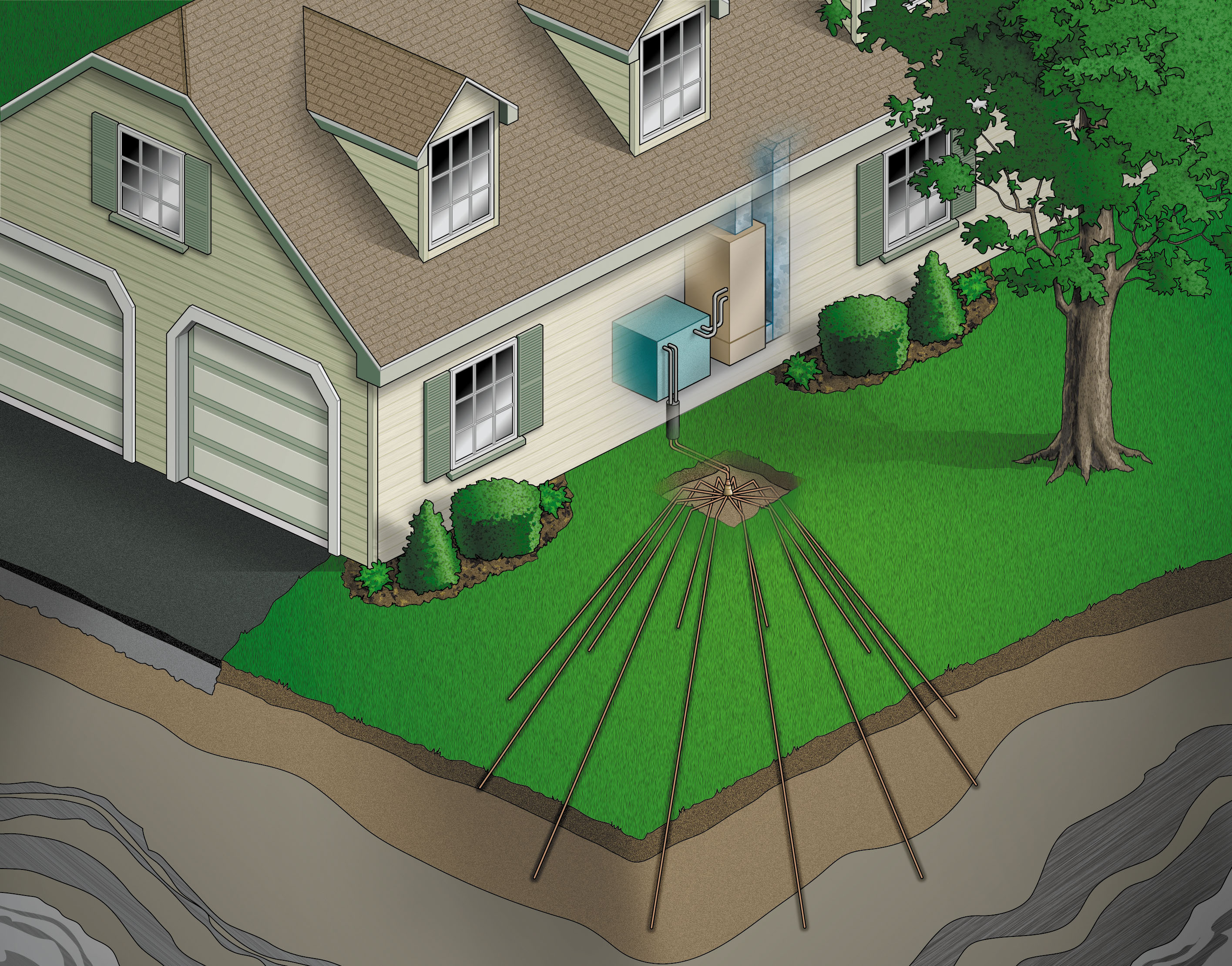 Visual of a direct exchange geothermal system